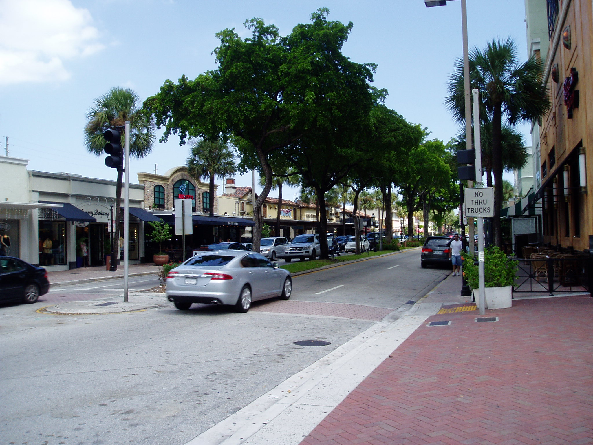 A streetscape of Las Olas Boulevard in Fort Lauderdale, Florida.